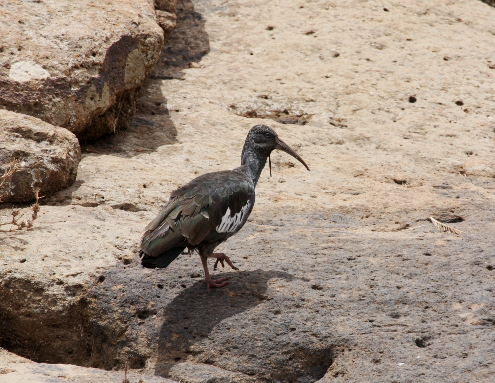 Wattled ibis - Bostrychia carunculata. Farta, Ethiopia.